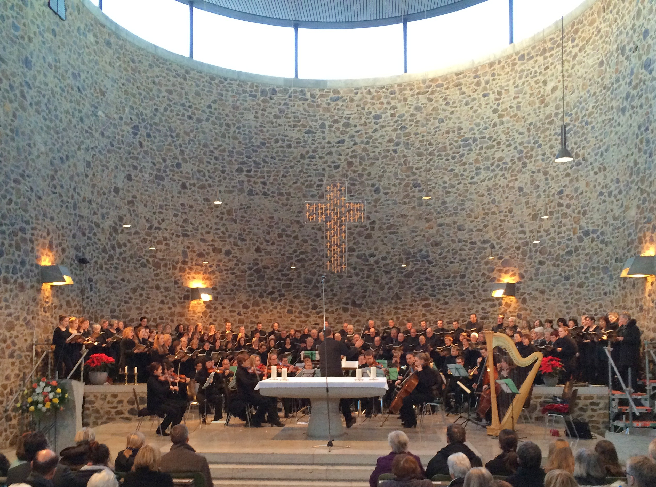 Performance of Karl Jenkins' Te Deum in St. Martin, Idstein, by three local church choirs in an ecumenical project, conducted by Franz Fink